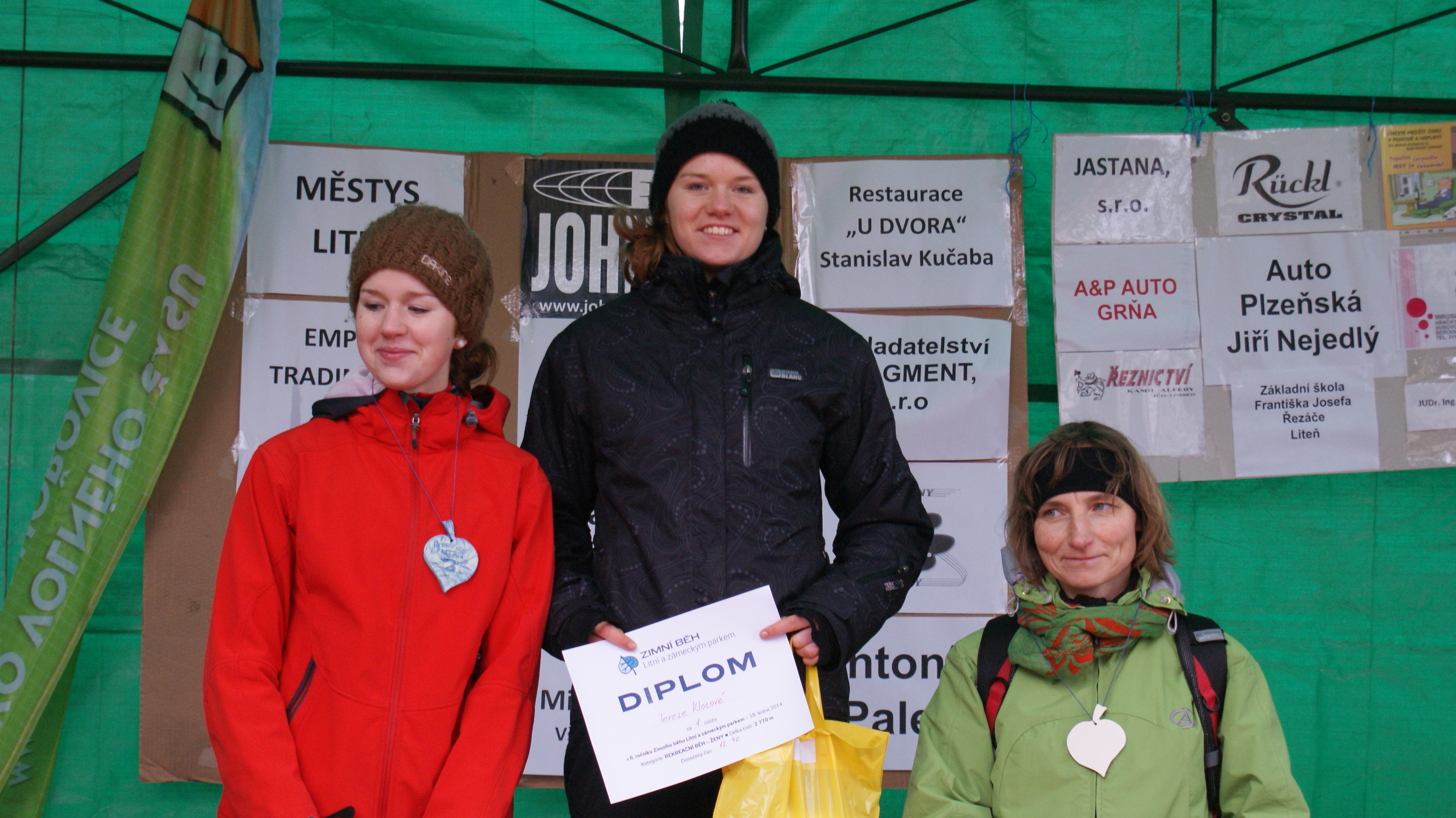 Liteň - running race